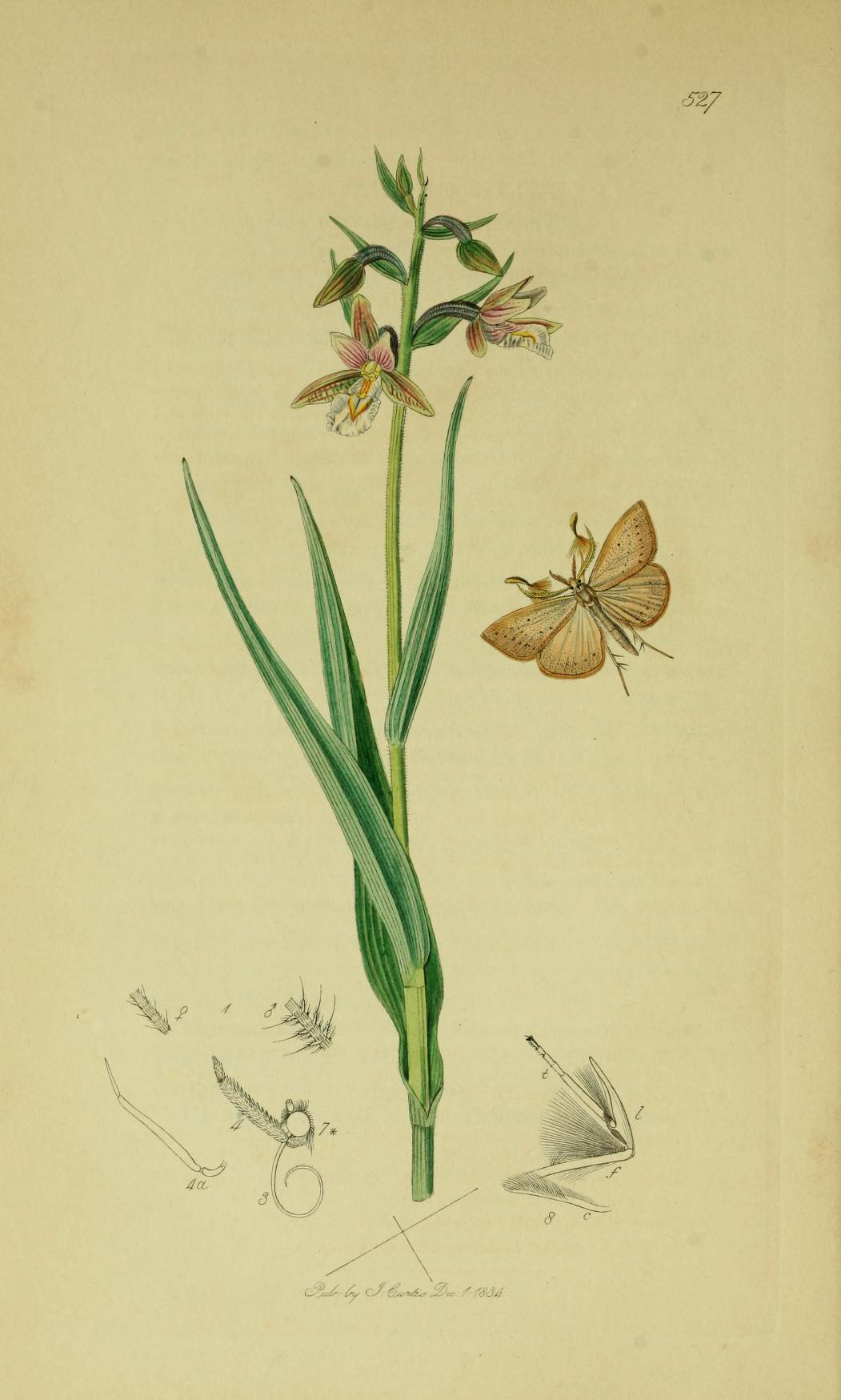 An illustration from British Entomology by John Curtis. Lepidoptera: Pyralis cribralis or Macrochilo cribrumalis (Hübner, 1793), Dotted Fan-foot